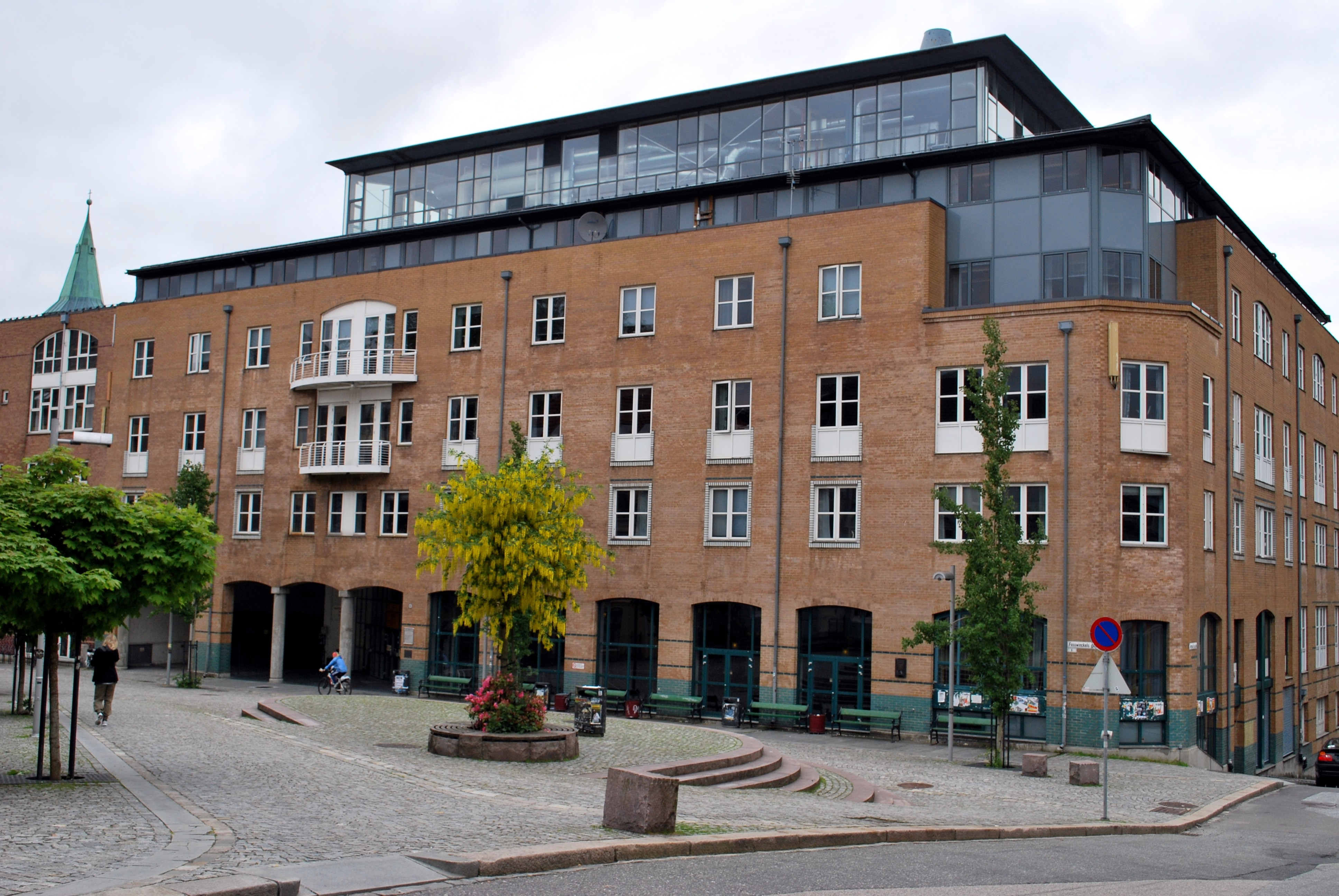 Faculty of Social Sciences, Det samfunnsvitenskapelige fakultet, University of Bergen. Street address: Fosswinckels gate 6.